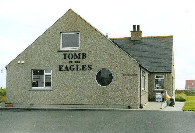 Museum at Liddle Farm. Only built in the last four years, a sign of how successful an attraction the Tomb of the Eagles has been, but also still boasts the personal touch - everything is still run by the family who own the farm.